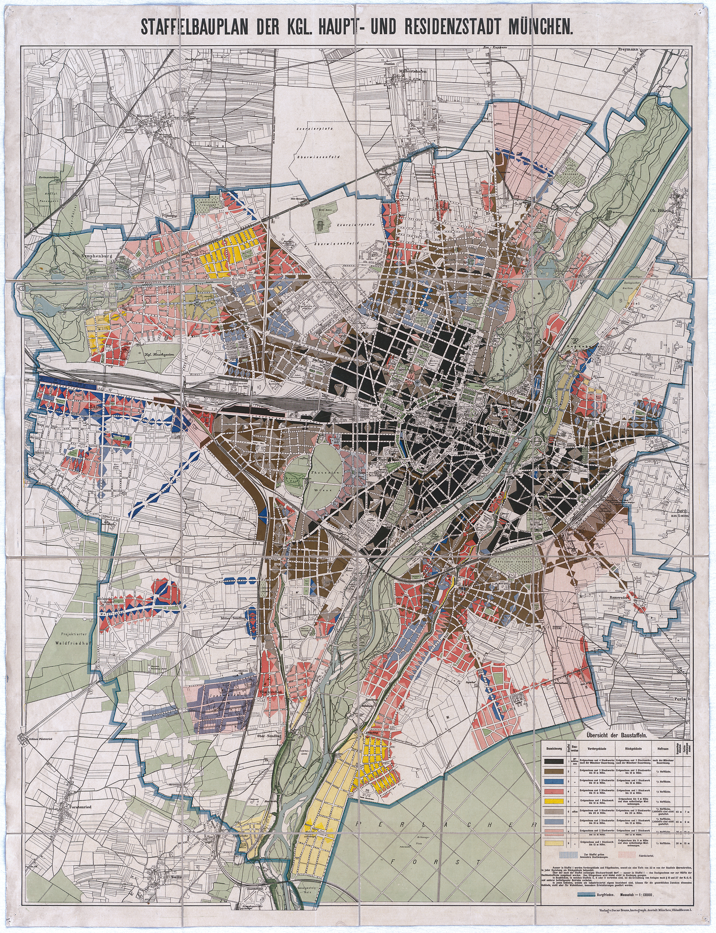 München Staffelbauplan, 1904 (Originalfassung) © Landeshauptstadt München